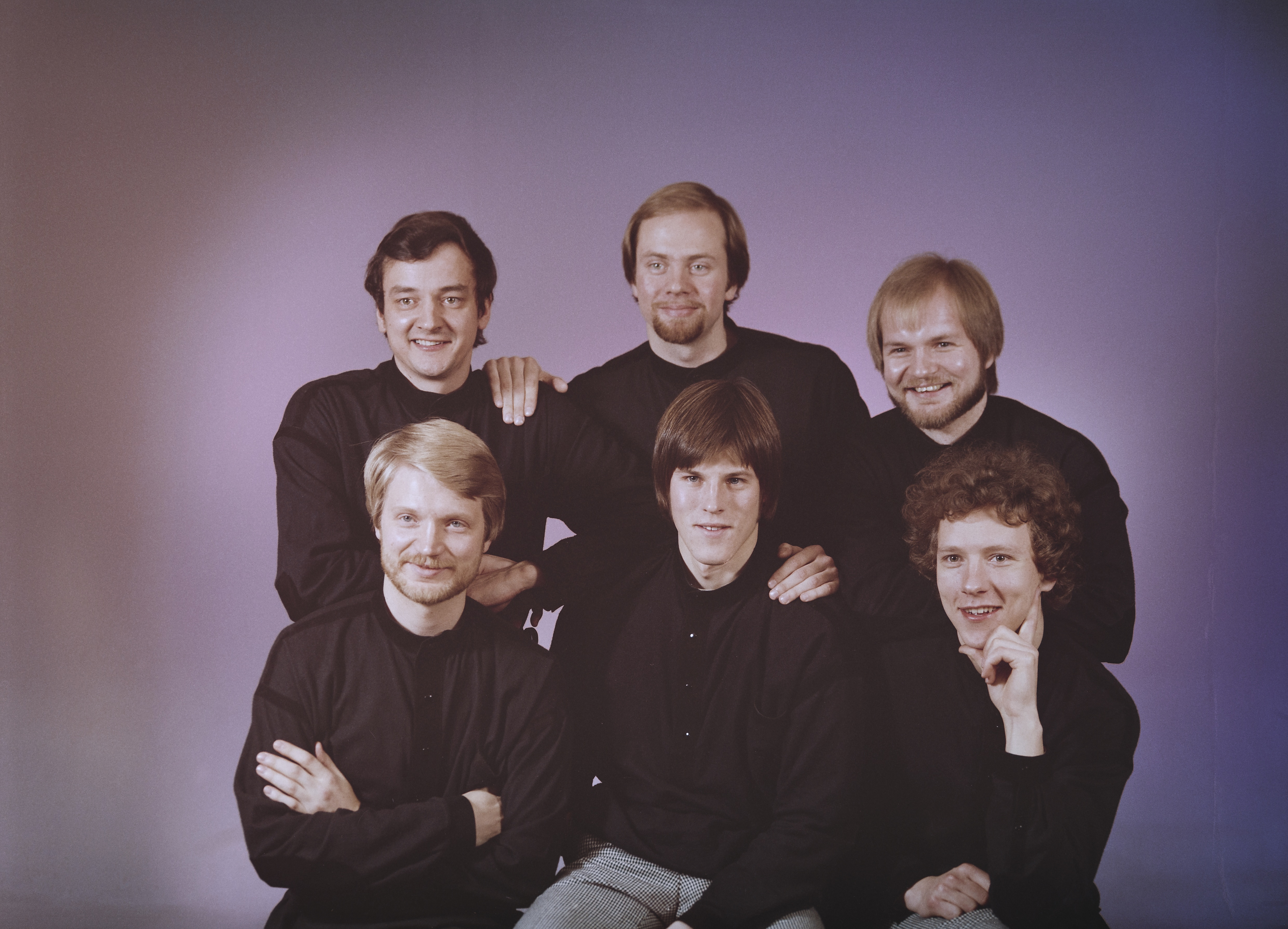 Photograph of the Finnish vocal ensemble Köyhät Ritarit: standing Martin Smeds, Jukka Latola and Sampo Suihko; seated Seppo Suihko, Jukka Uosukainen and Eero Hirvensalo.